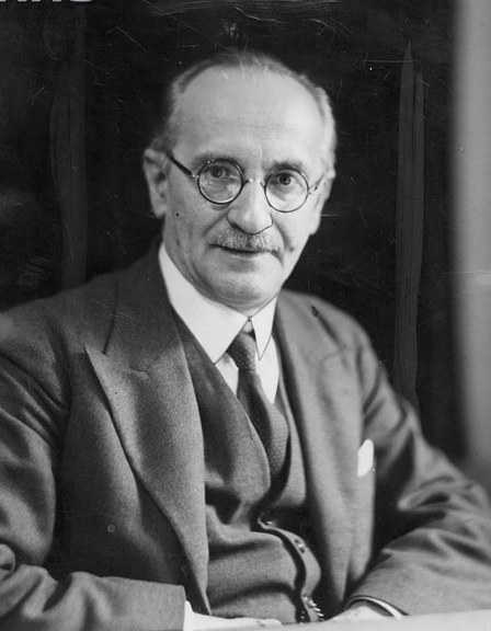 Jan Łukasiewicz (21 December 1878 – 13 February 1956) Polish logician and philosopher born in Lwów, Galicia, then Austria–Hungary. His work centred on analytical philosophy and mathematical logic. He thought innovatively about traditional propositional logic, the principle of non-contradiction and the law of excluded middle. Professor of Lvov University and Warsaw University. After WW II in exie, professor of University College Dublin.